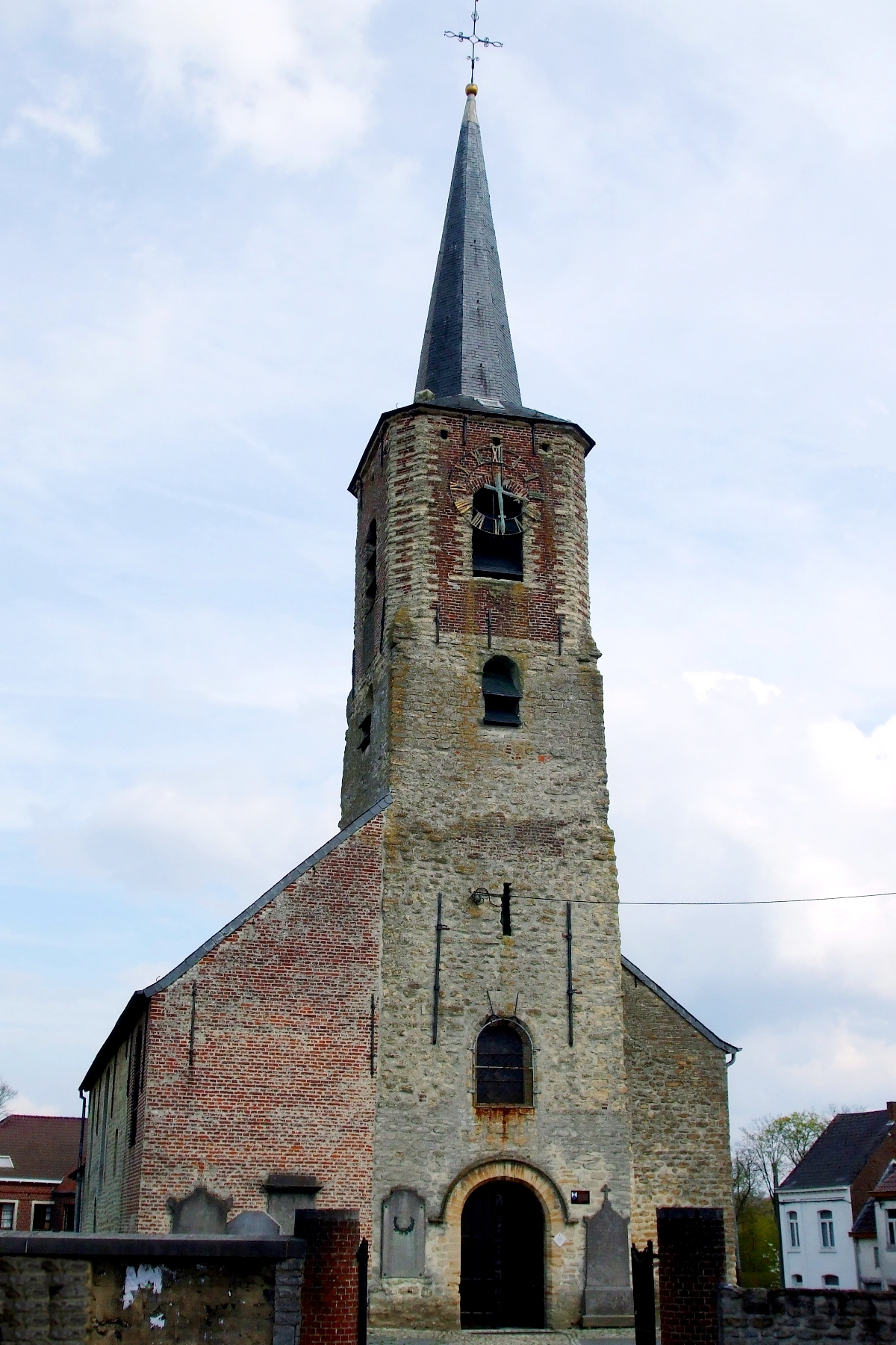 Keywords: church, romanesque, Vossem, Tervuren, Belgium